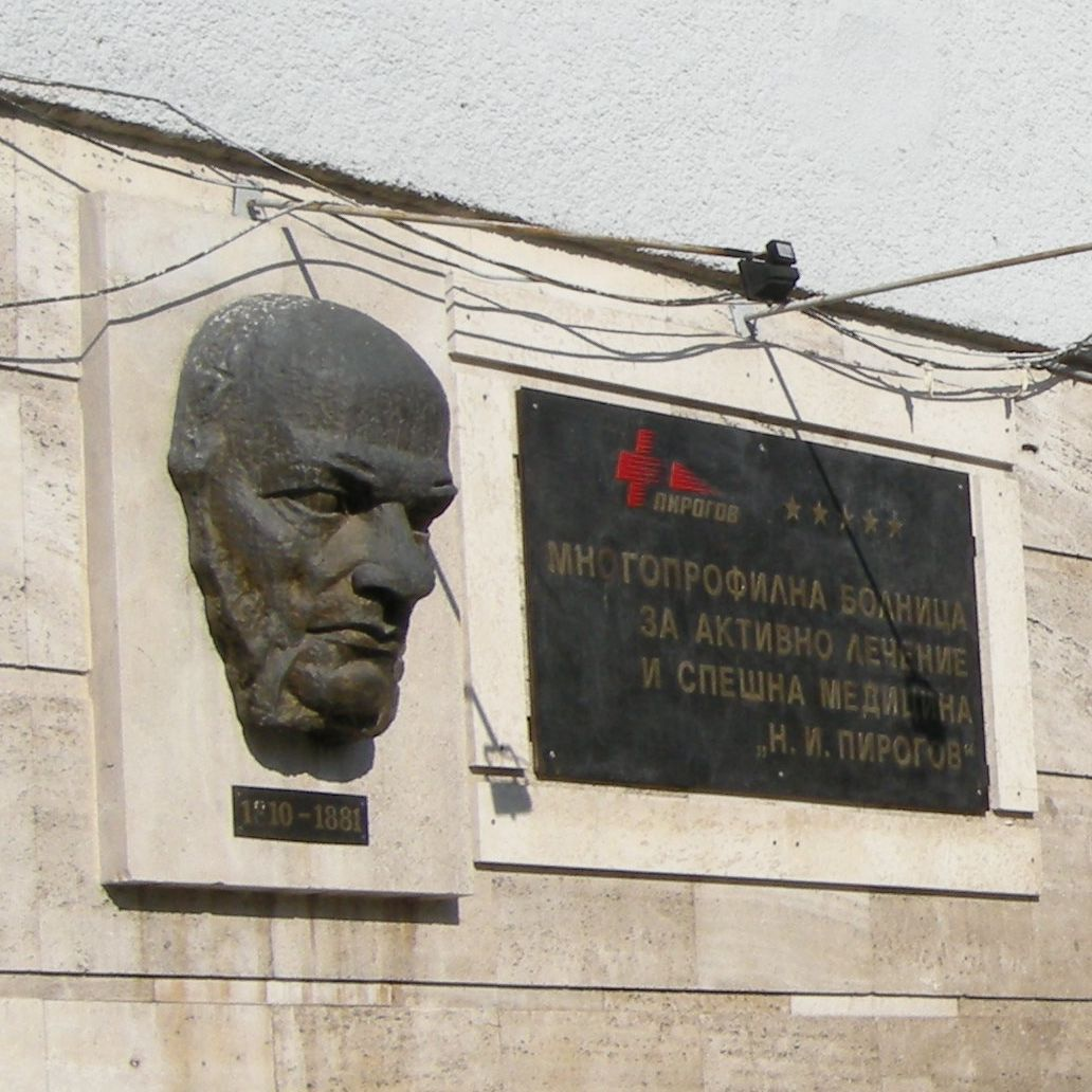 Plaque of Nikolai Ivanovich Pirogov on the wall of "N. I. Pirogov" hospital in Sofia, Bulgaria.